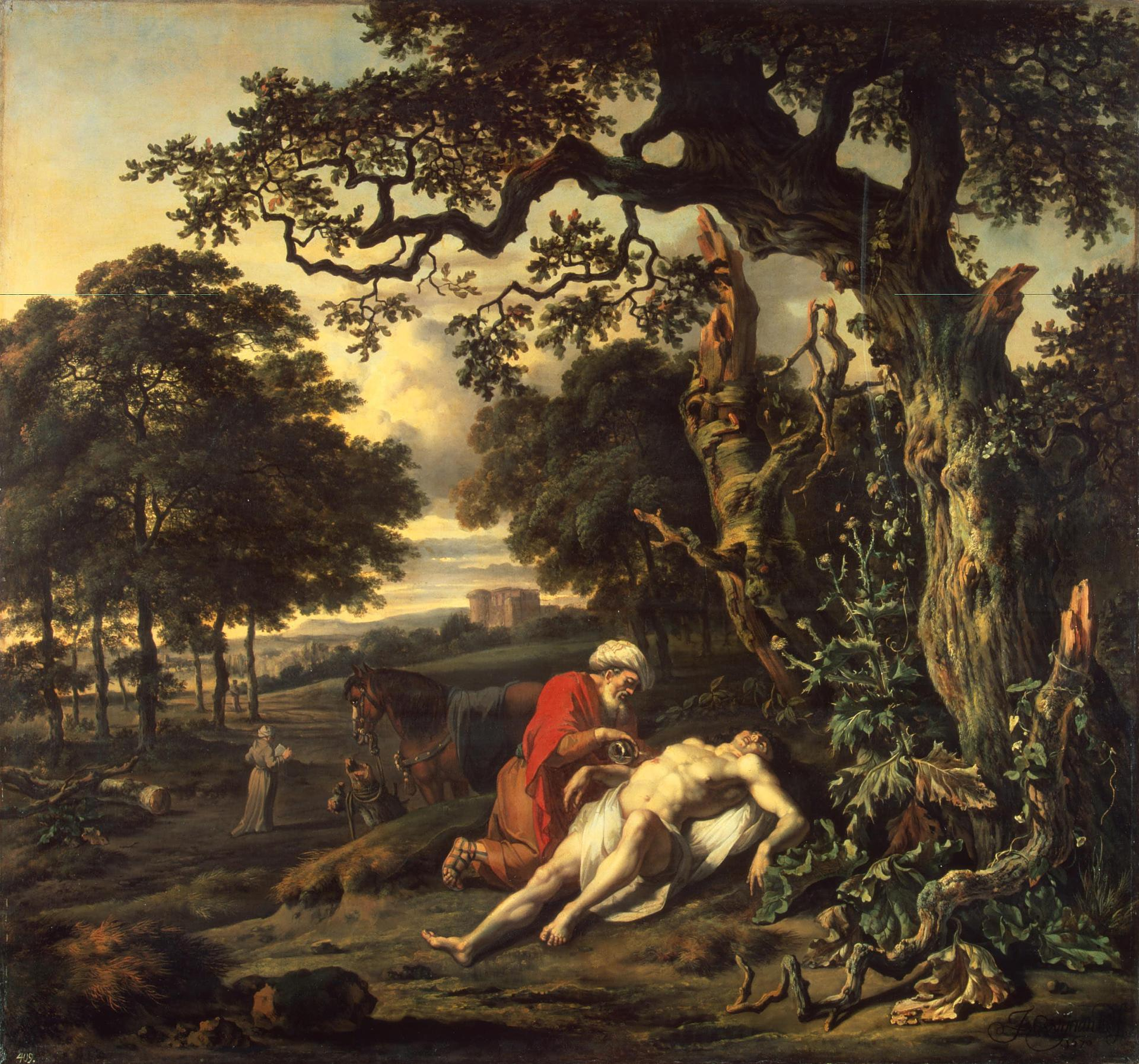 Depiction of the biblical teaching of Jesus, the Parable of the Good Samaritan (Luke 10:25-37). Jesus said this parable in response to a question posed to him by a scholar of Mosaic law.